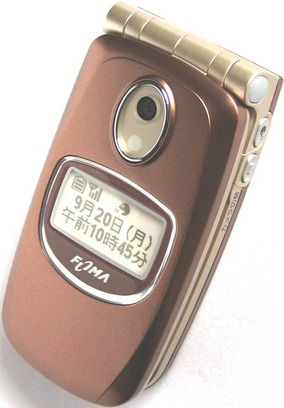 NTT DoCoMo FOMA F880iES was closed.